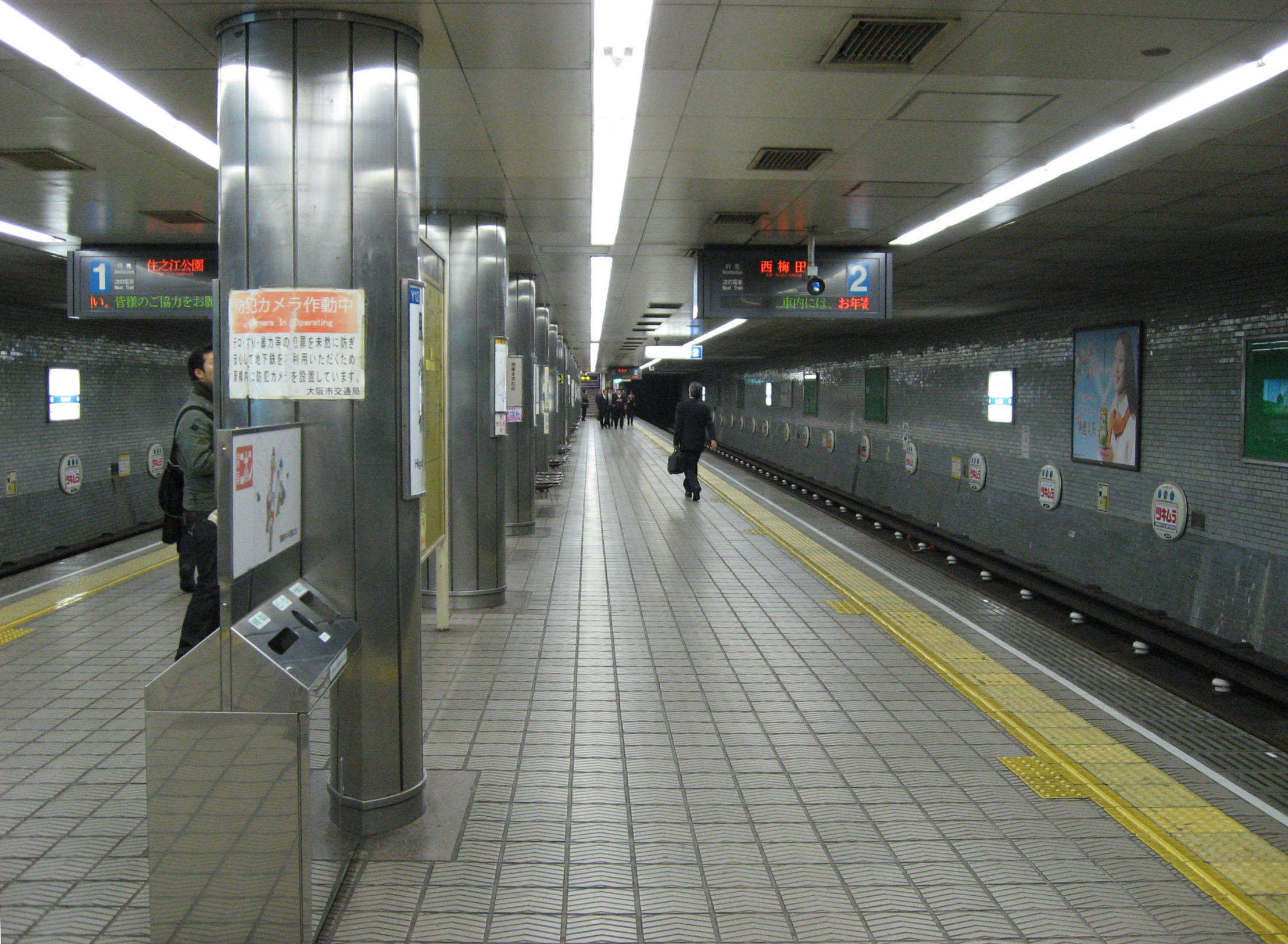 Platform of Higobashi Station.